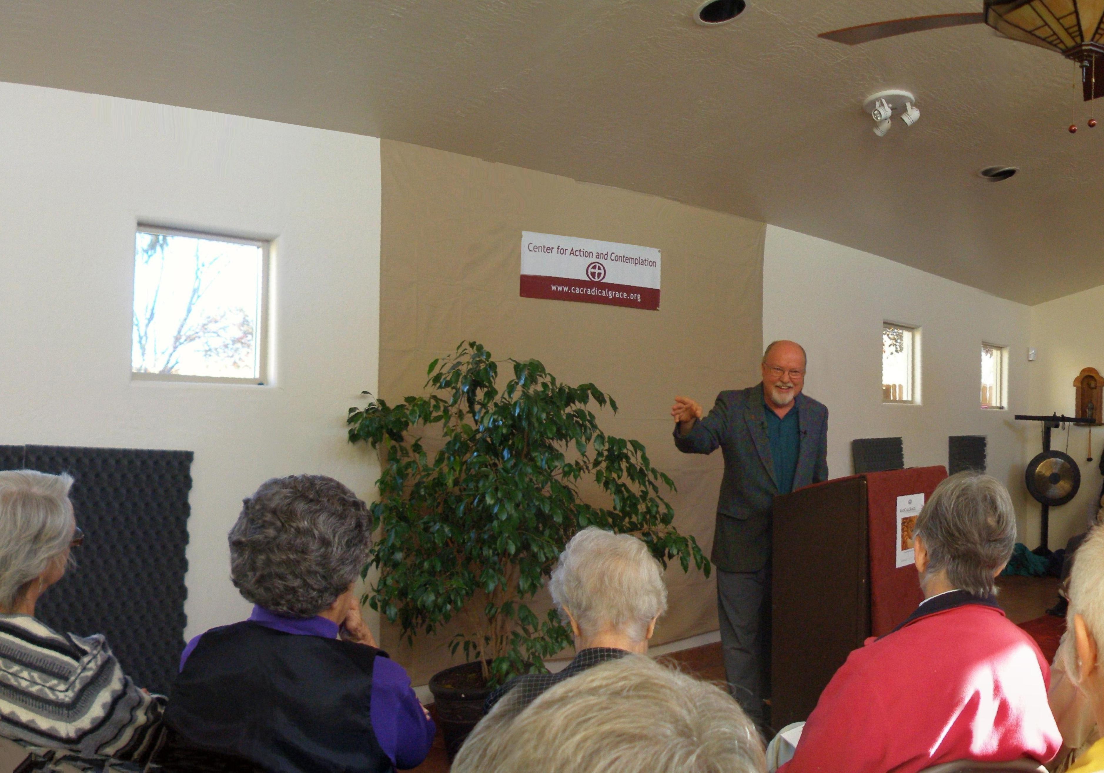 Richard teaching during a webcast.